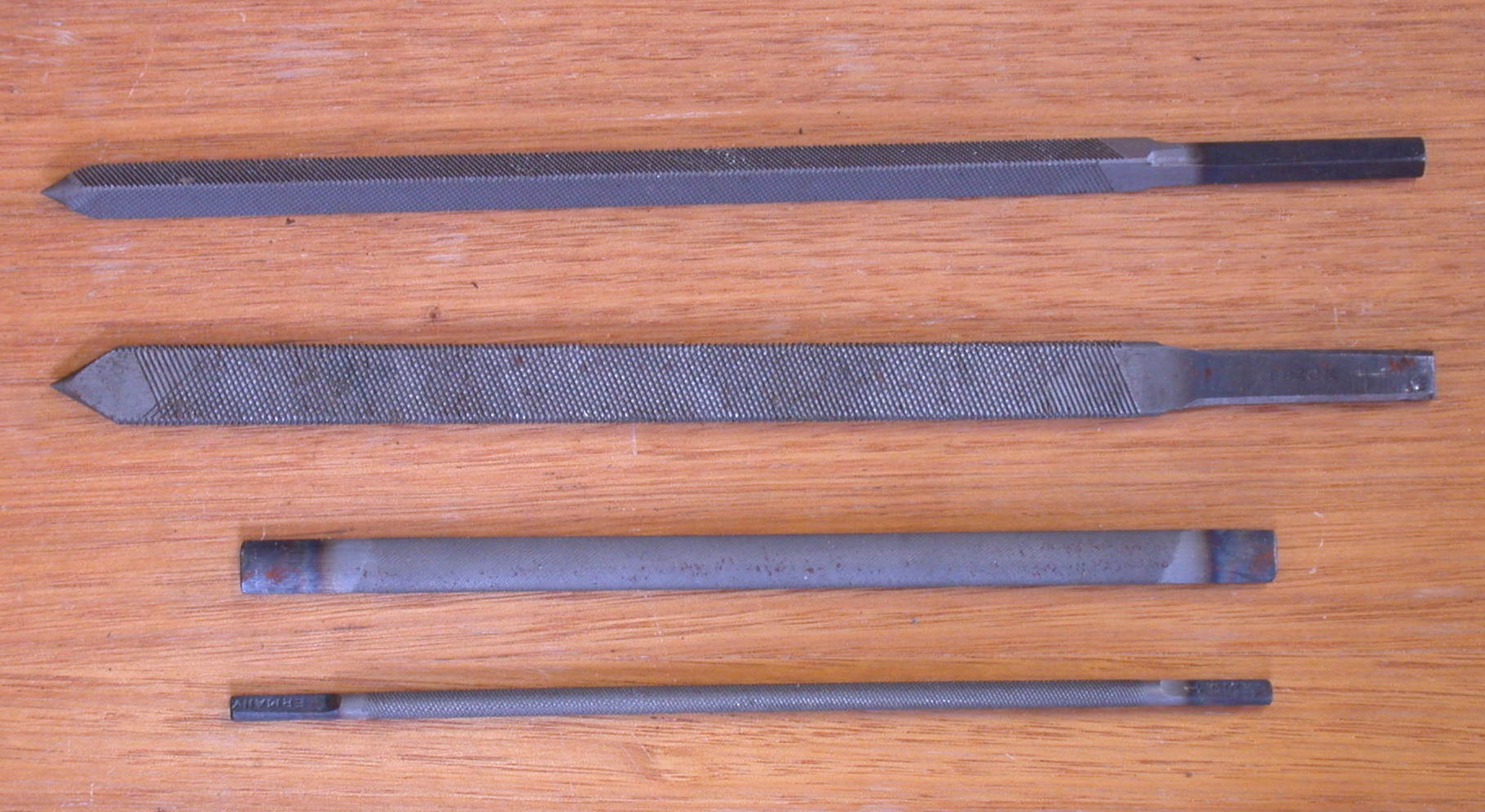 Four different machine files, for use in a filing machine.